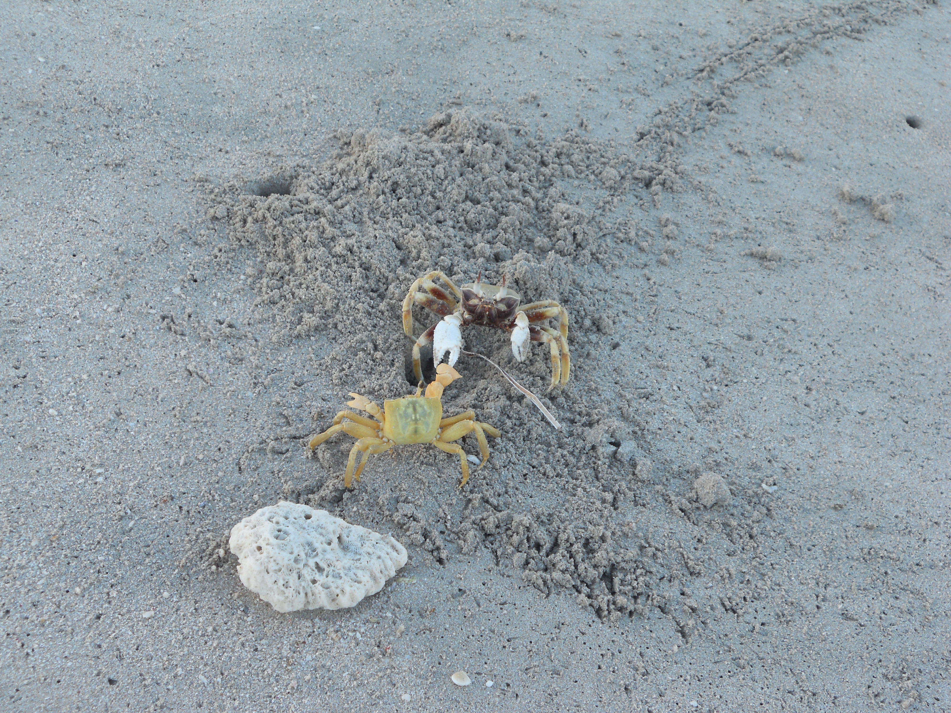 Golden ghost crab (Ocypode convexa) fighting a horned ghost crab (Ocypode ceratophthalma)